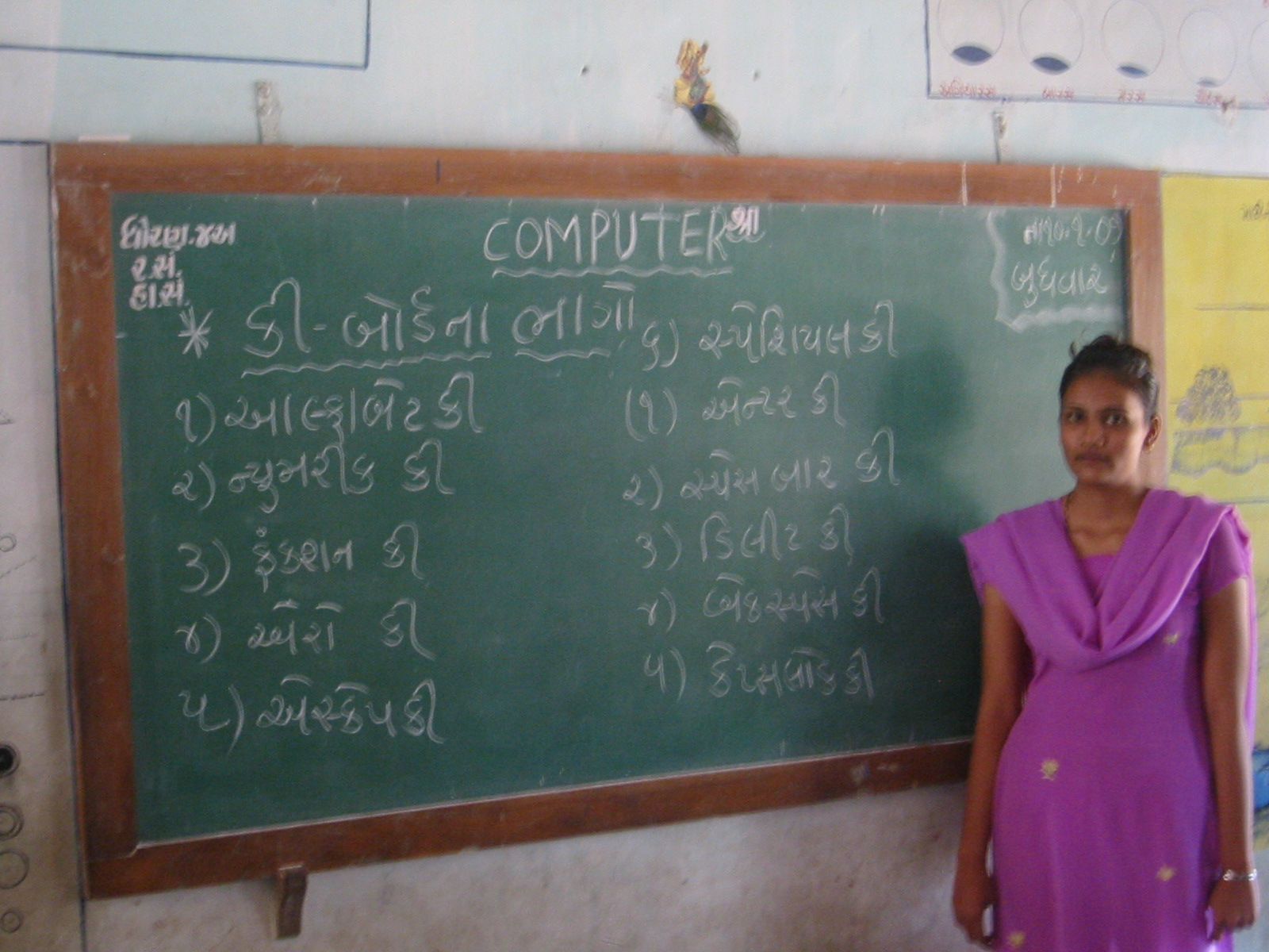 Computer class near Baroda, Gujarat, India. January 2007. The computers are provided by